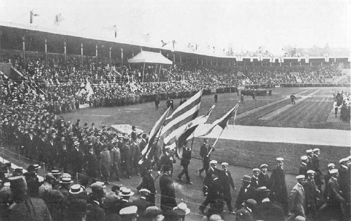 The opening ceramony of the 1912 Summer Olympics.